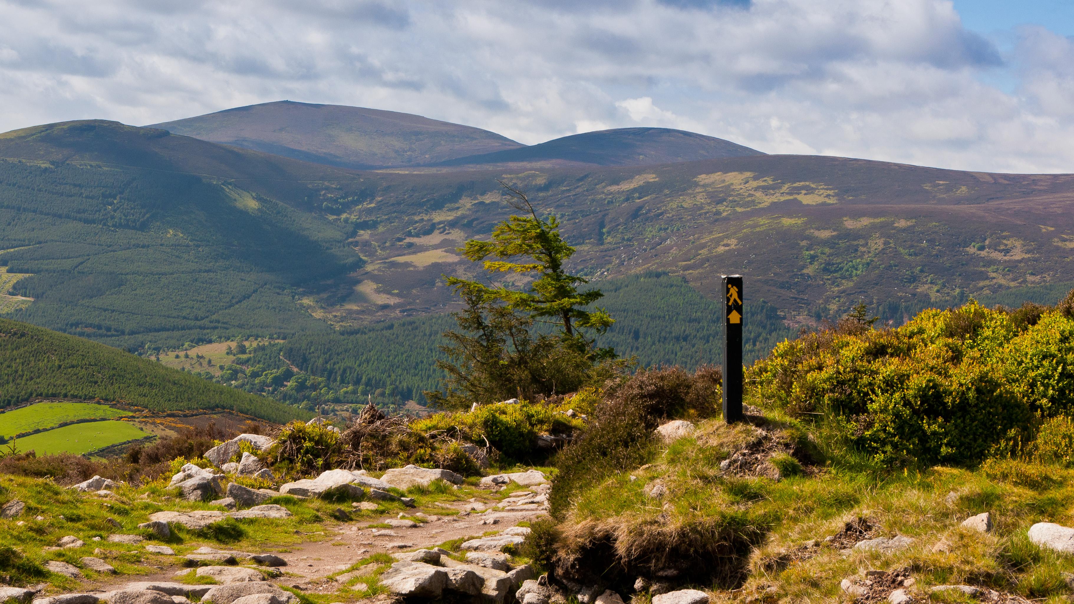 A waymarker on the Wicklow Way National Waymarked Trail near Curtlestown Wood, County Wicklow Ireland overlooking the Glencree valley with the mountains Maulin, Djouce and War Hill in the distance.